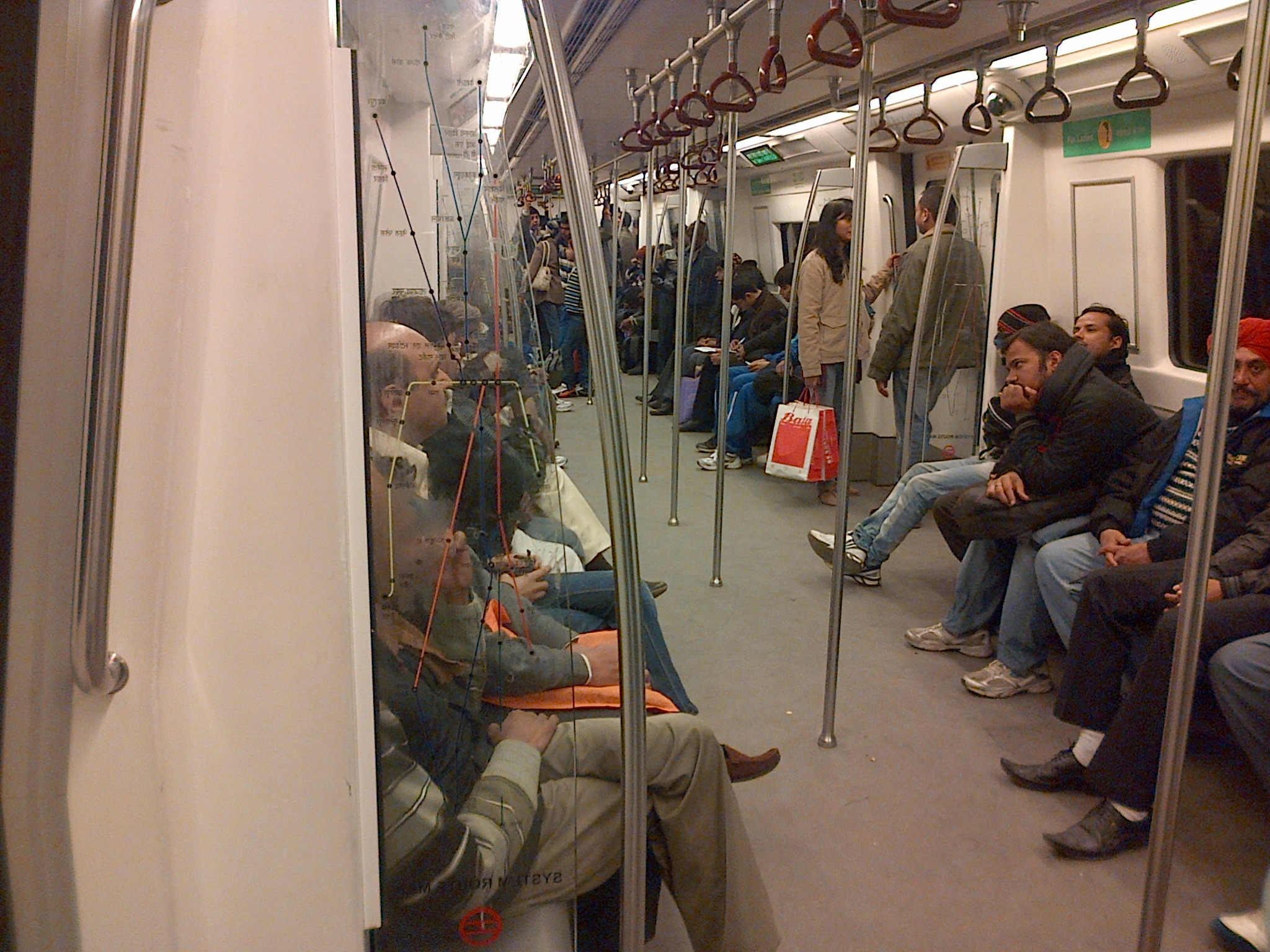 Inside a Delhi Metro on the yellow line